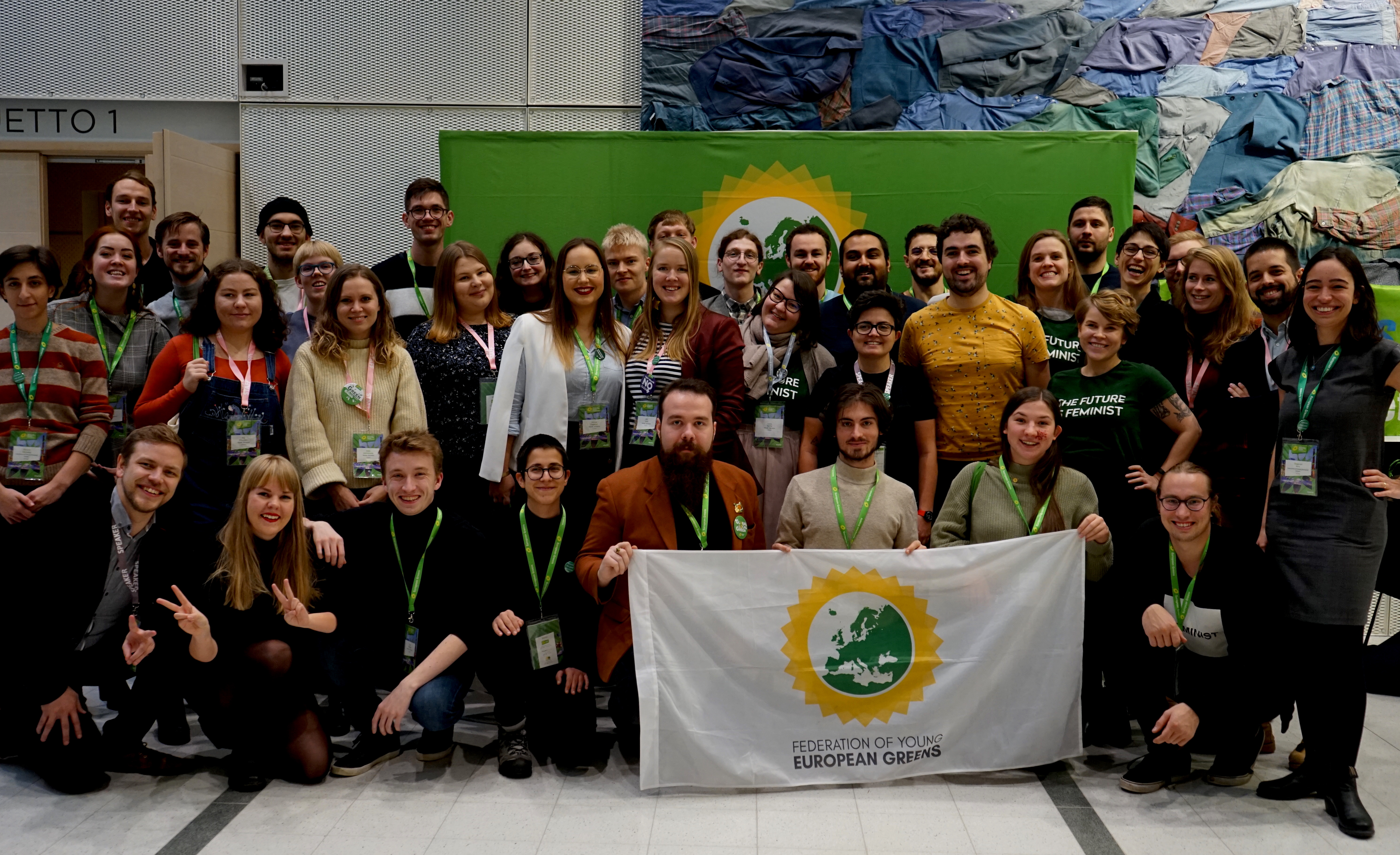 The Federation of Young European Greens at the 30th Council Meeting of the European Greens, Tampere (2019).